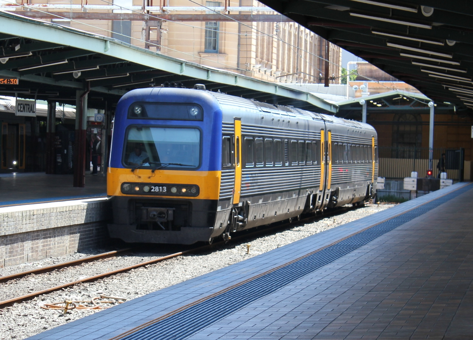 CityRail Endeavour Railcar at Central Railway Station